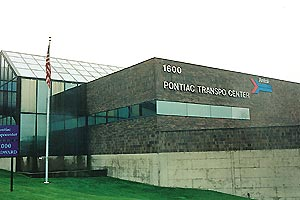 The former Amtrak station in Pontiac, Michigan from 1983-2008 (demolished in 2008).